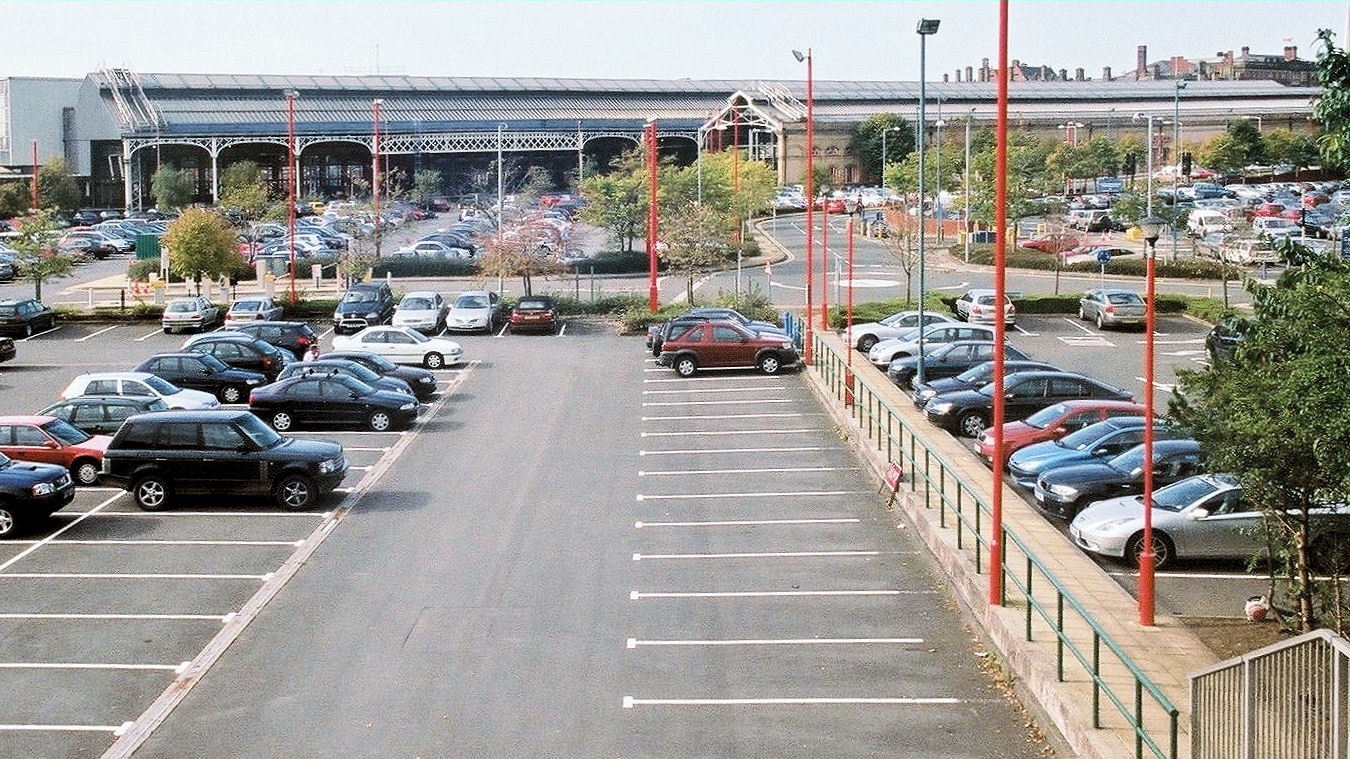 The car parks of Preston railway station (centre) and Fishergate Centre (right), Preston, Lancashire, England, viewed from Vicar's Bridge in 2007. Until 1972 this was the site of the station's "East Lancashire" platforms, which would have been curving towards the camera. The train shed of the current railway station is visible in the distance. A multi-storey car park has since been built over part of this area. File:Preston 7 railway station 2039787 d579c3c3.jpg shows the same location in 1959.